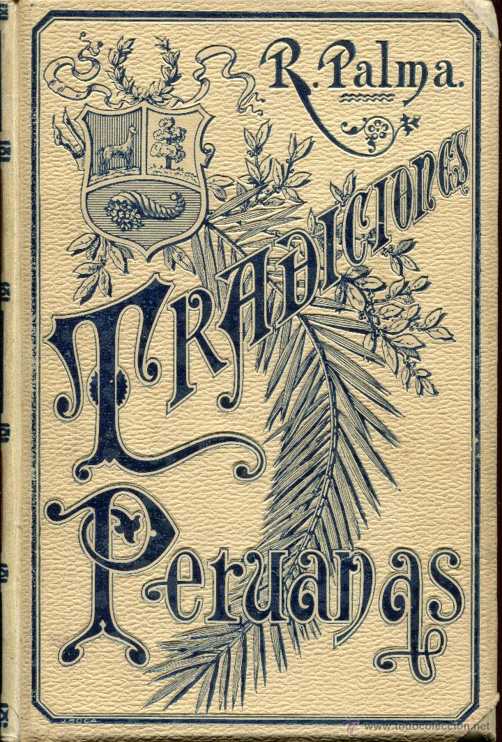 The cover of Peruvian Traditions, written by Ricardo Palma.